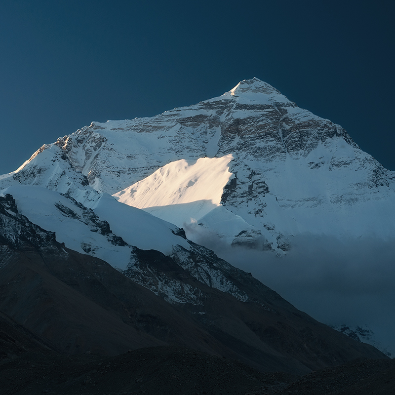 Mount Everest from Rombuk valley, Tibet